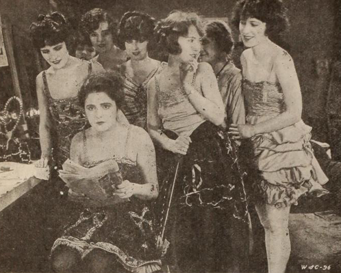 Billie Dove (seated), along with the other chorus girls from the American romantic drama film At the Stage Door (1921).